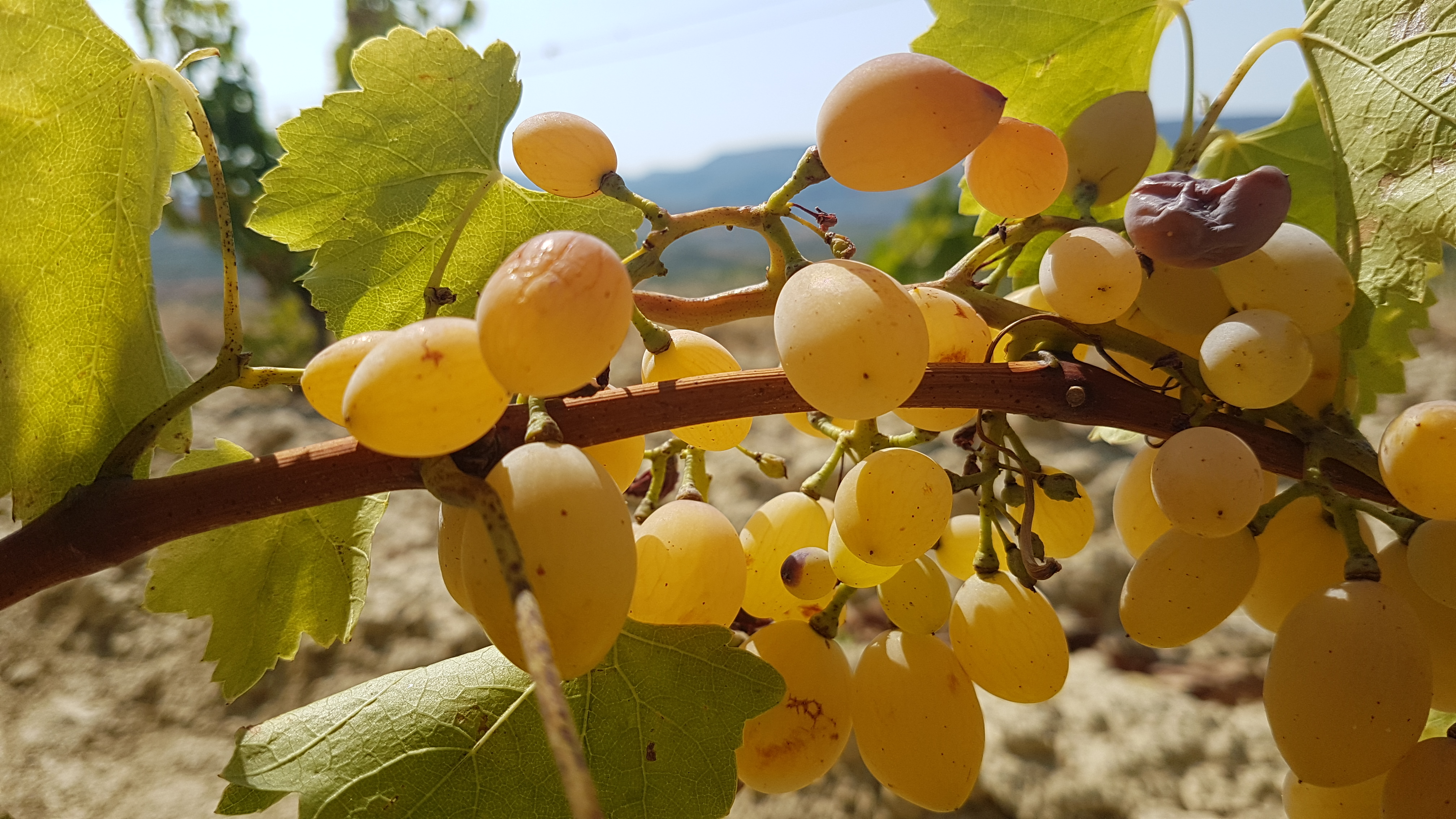 Crops in Tikveš region Macedonia